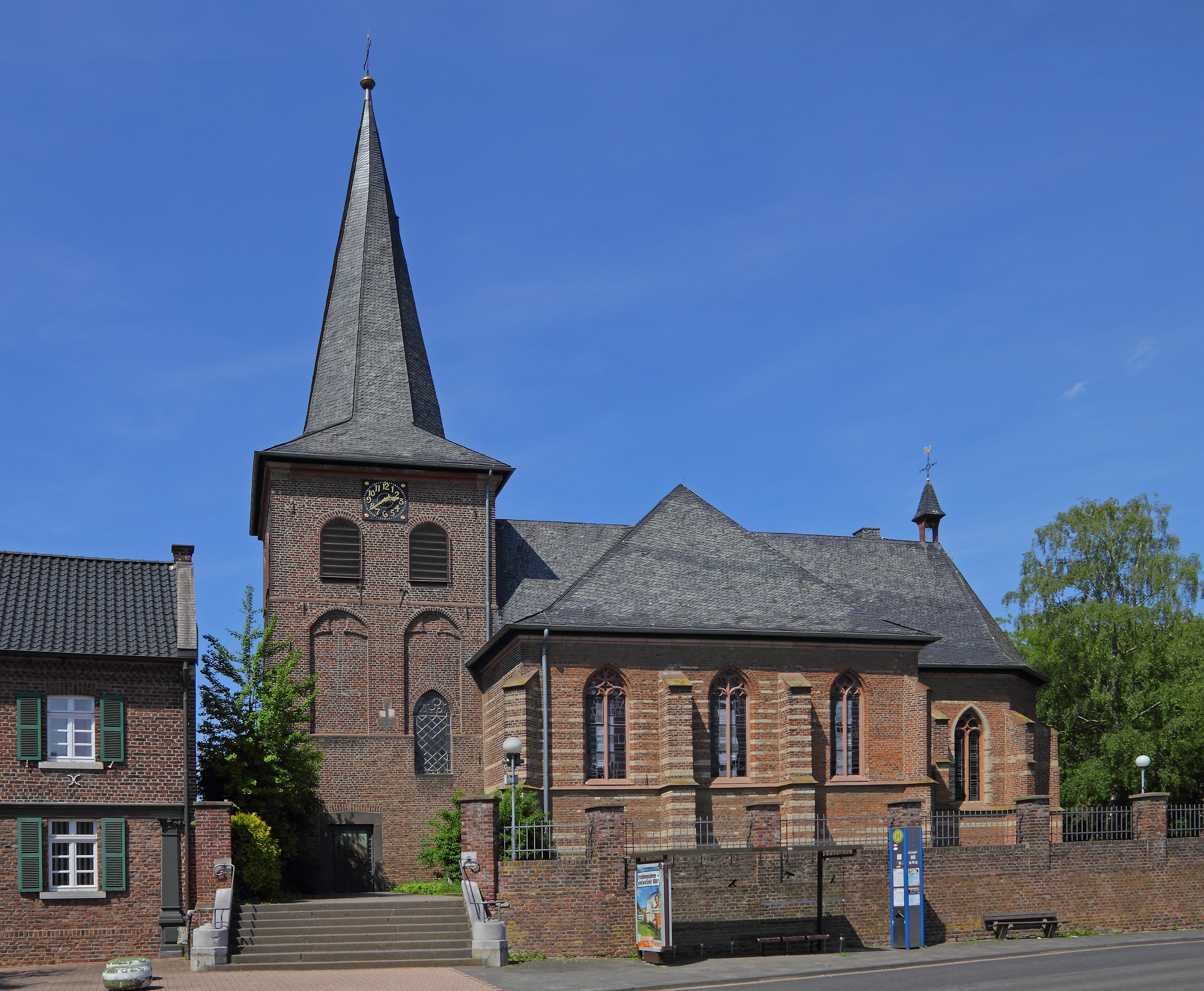 Kerpen-Sindorf, church of St. Ulrich